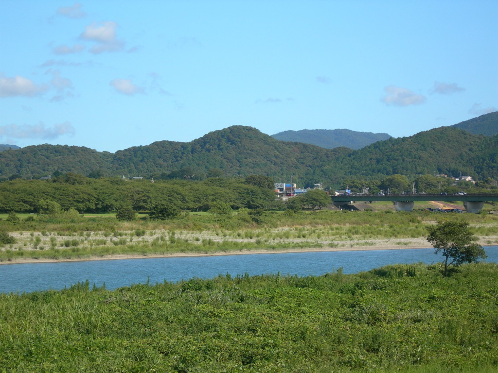 Mt. Takakurayama at Sanctuary of Toyoukedaijingu (Geku) at Ise city Mie Prf. Japan.